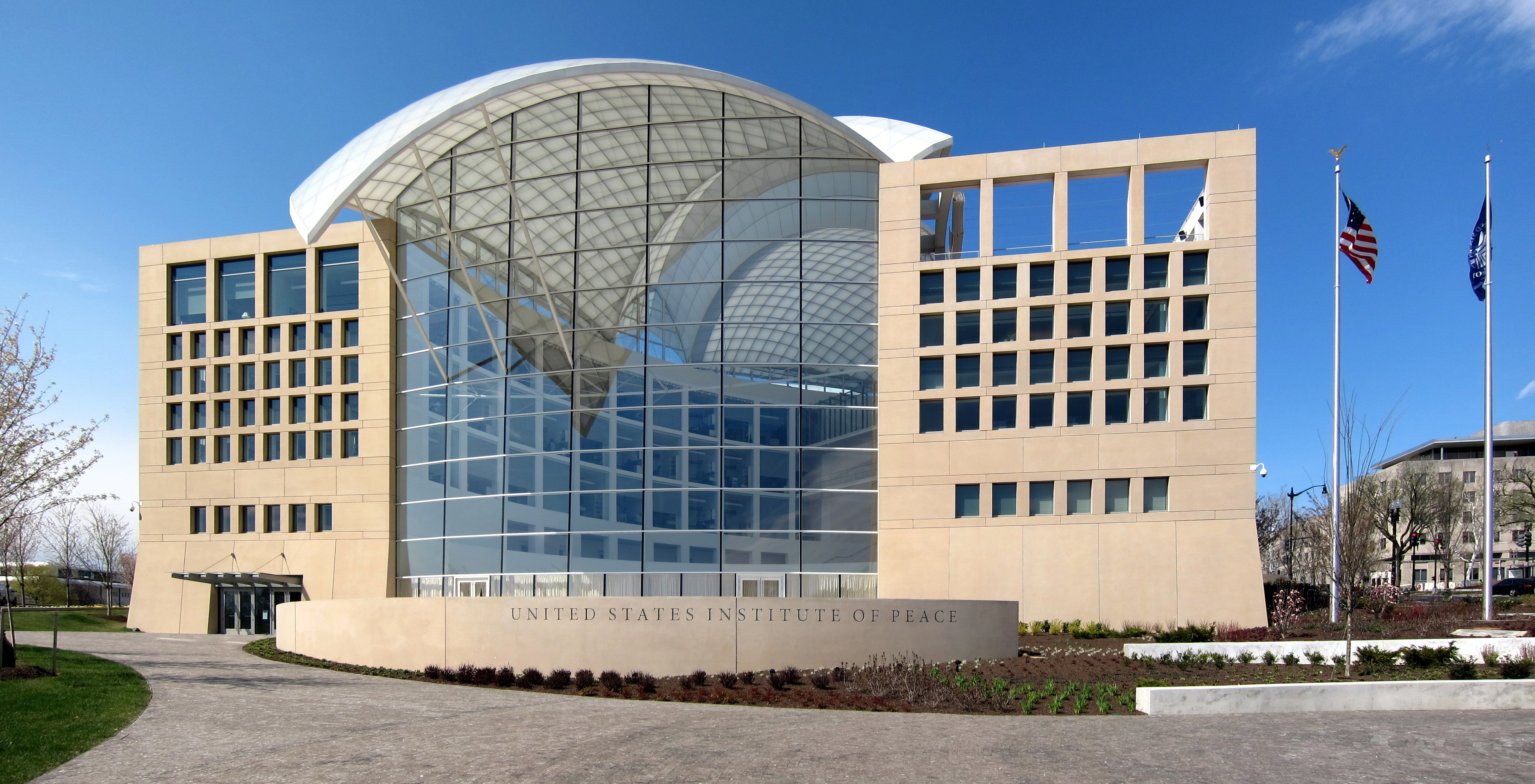 The United States Institute of Peace Headquarters located at 2301 Constitution Avenue NW in Washington, D.C..